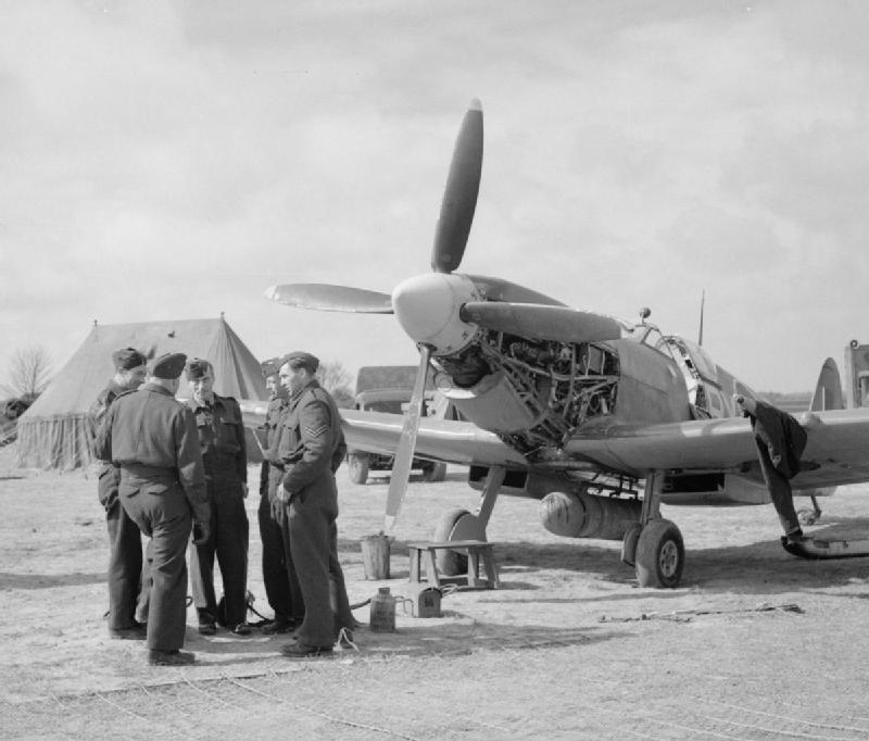 Royal Air Force 1939-1945- Fighter Command A Spitfire LF IX of No 313 Squadron undergoing an oil change at Appledram ALG (advanced landing ground), near Tangmere, 19 April 1944. Many fight squadrons were operating from temporary strips in southern England, their pilots and attached servicing echelons getting used to 'roughing it' in the open as preparation for future deployment on the Continent. The three Czech-manned Spitfire squadrons flying escort operations from Appledram at this time (Nos 310, 312 and 313) formed part of No 84 Group, 2nd Tactical Air Force.